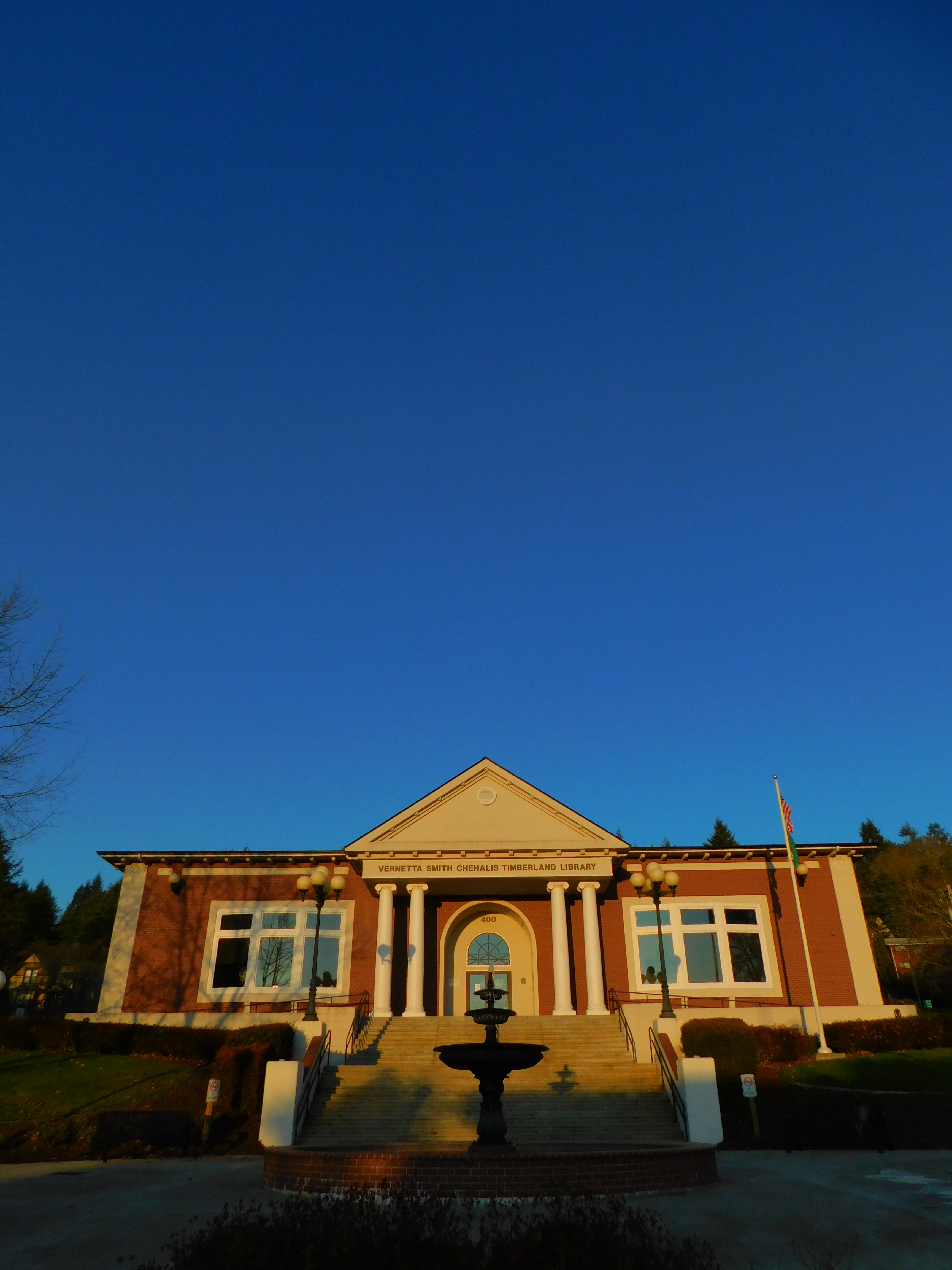 Late autumn, sunset photo of Vernetta Smith Chehalis Timberland Library on Market St.